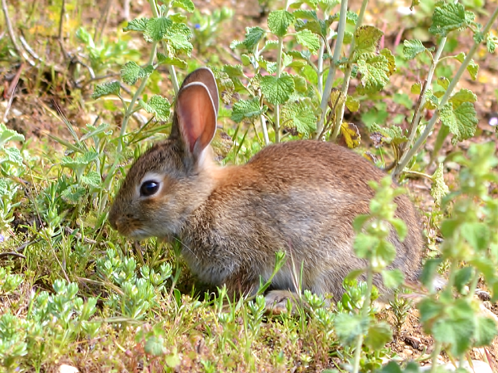 European rabbit or common rabbit (Oryctolagus cuniculus). In Oeiras, Portugal. Wild cub.